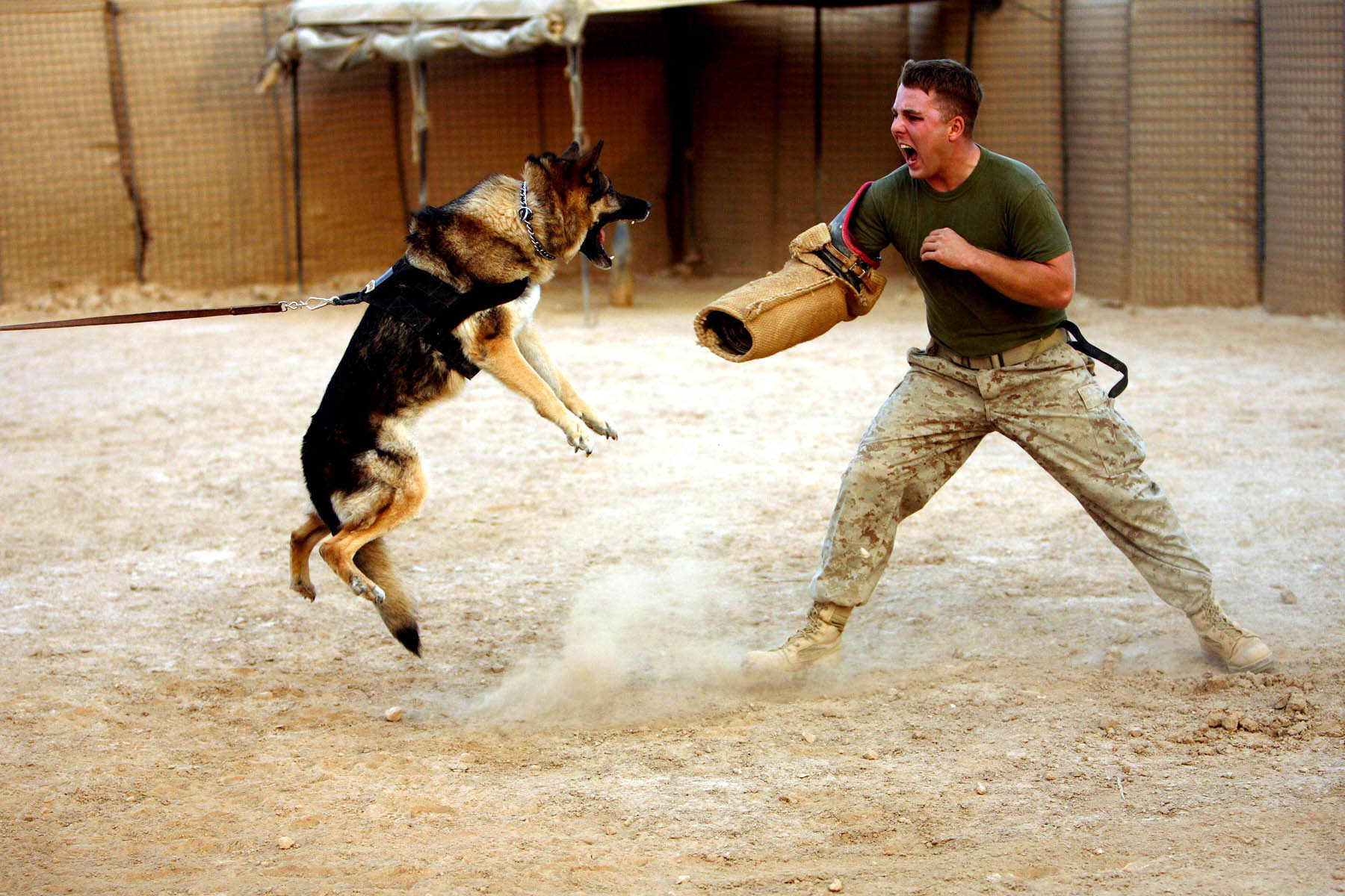 Lance Cpl. Trevor M. Smith, a 20-year-old combat tracker dog handler from Myrtle Beach, S.C., with Task Force Military Police, I Marine Expeditionary Force, in support of Task Force 3rd Battalion, 7th Marine Regiment, Regimental Combat Team 5, taunts Grek, a military working dog, who replies with intimidating snarls. The working dogs’ keen senses make them a valuable resource when searching for improvised explosive devices and tracking down the insurgents who made them.